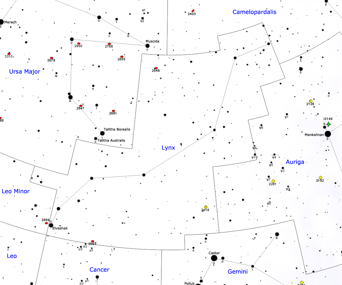 Map of Lynx